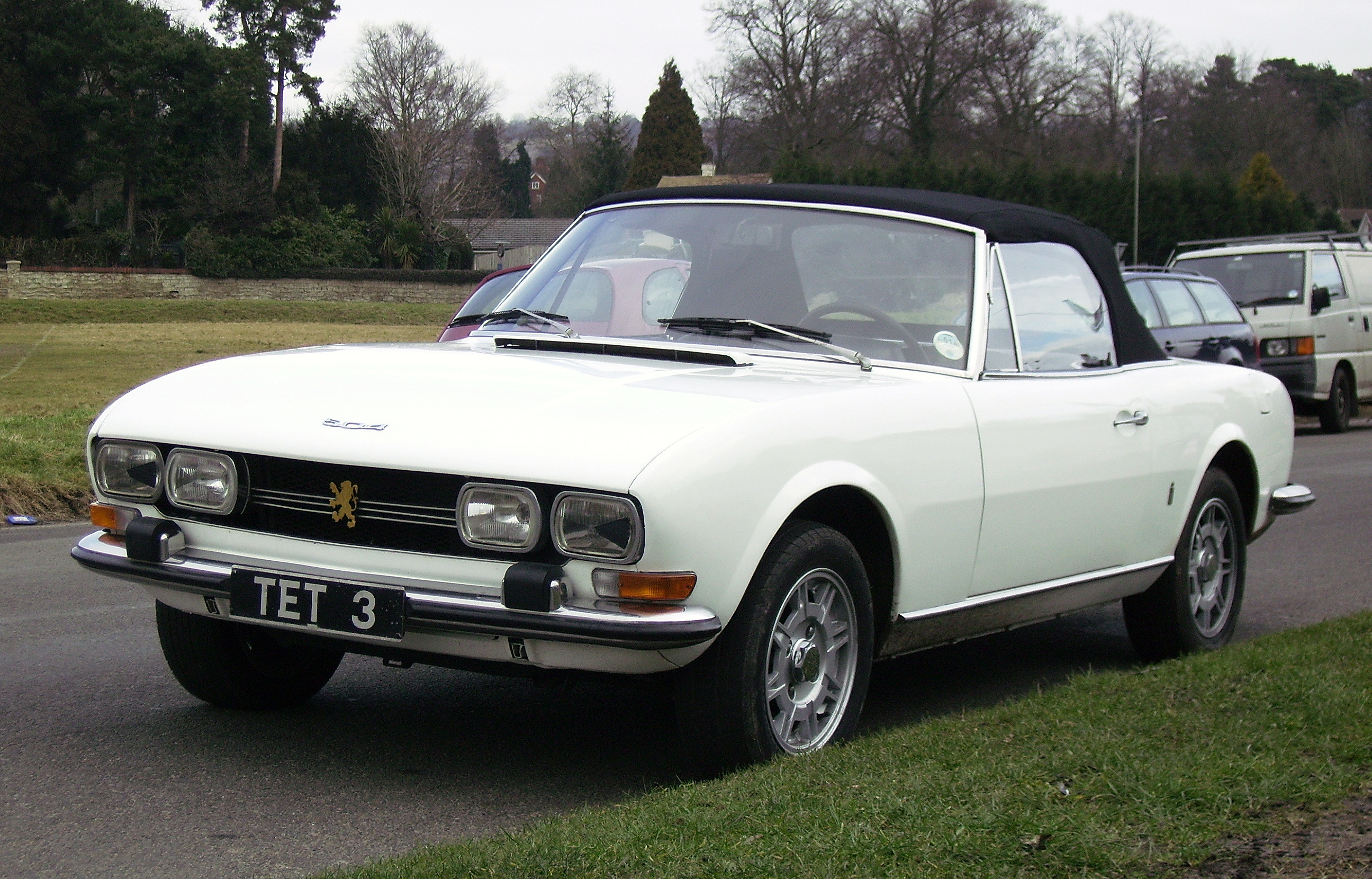 the return of the Peugeot 504 cabriolet,Reigate Heath,Feb 2009